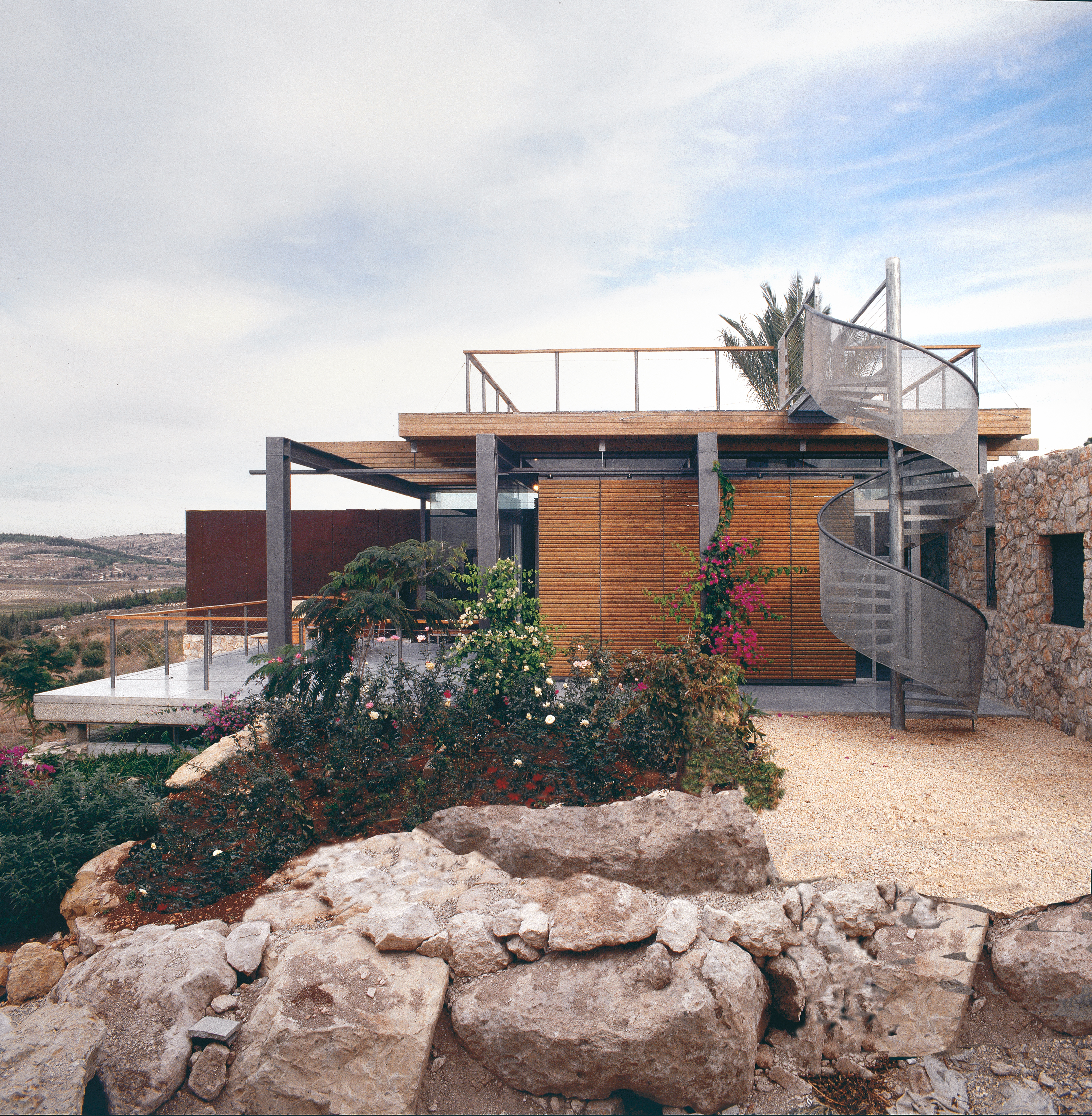 Terrace House by Architect Senan Abdelqader, located in NSWAS.